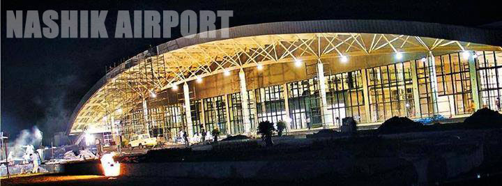 Nashik Domestic Airport